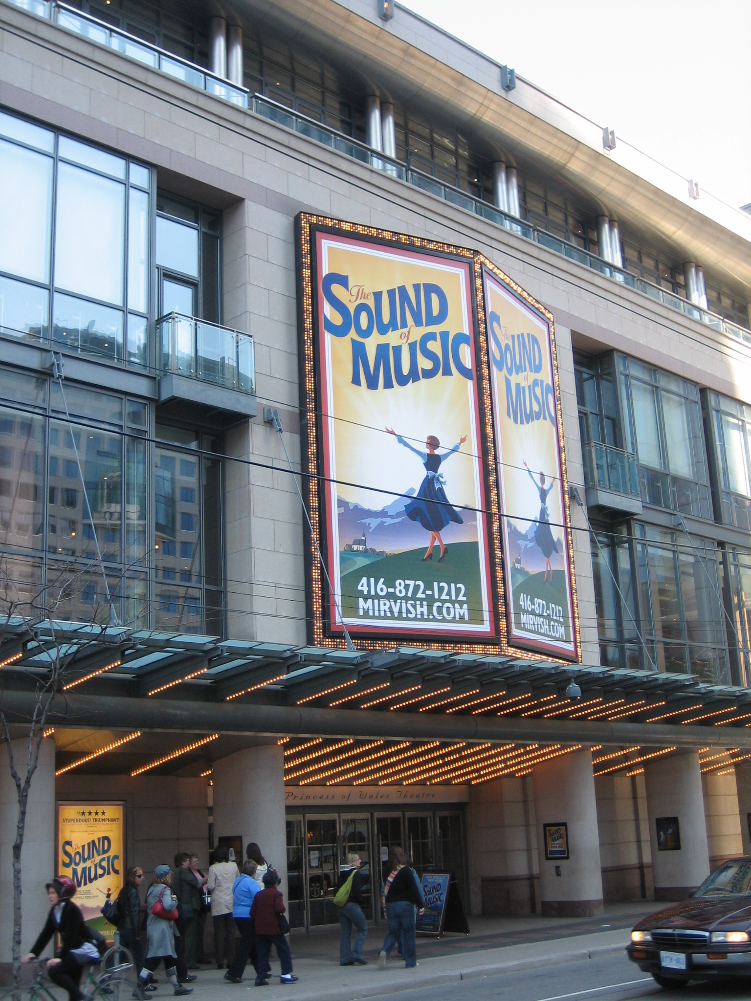 Princess of Wales Theatre, Toronto